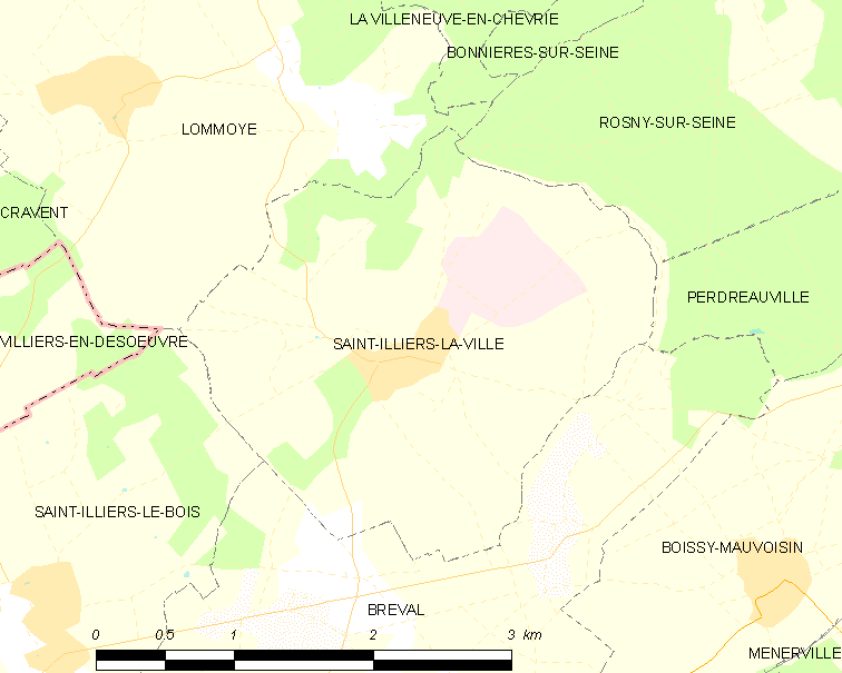 Map of French municipality Saint-Illiers-la-Ville